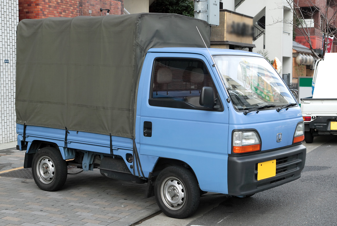 Second generation Honda Acty 660 SDX